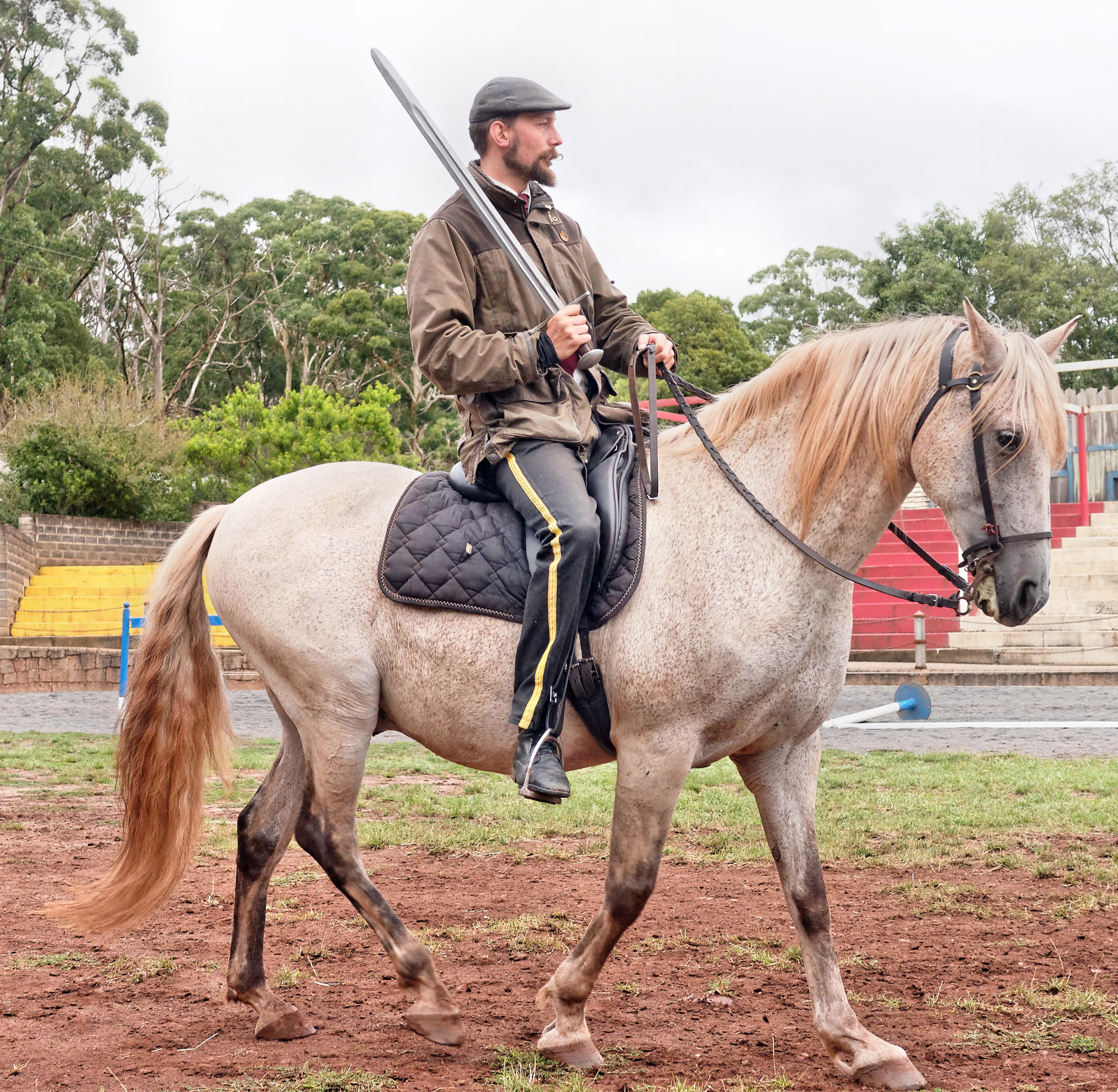 Arne Koets teaching Historic Combat Workshop